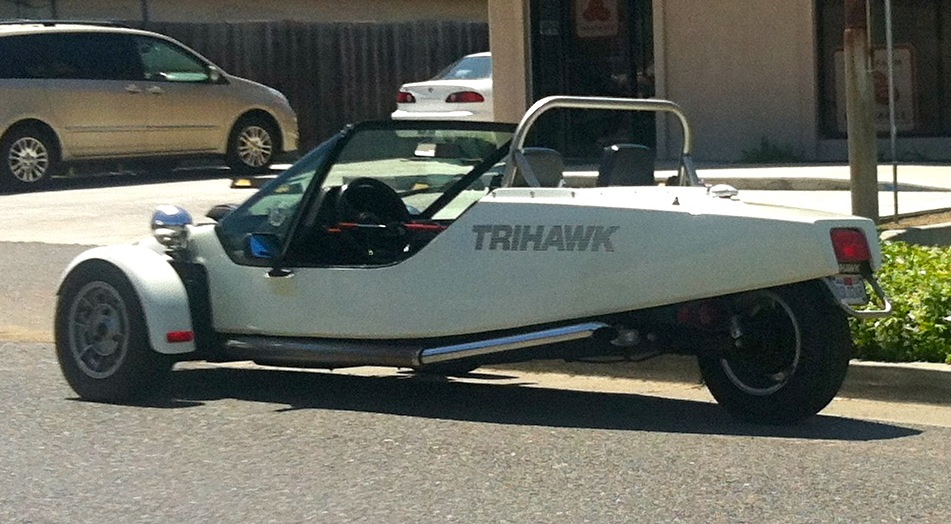 A Trihawk, a three-wheeler vehicle. Just over 100 were built in California in the mid-1980s